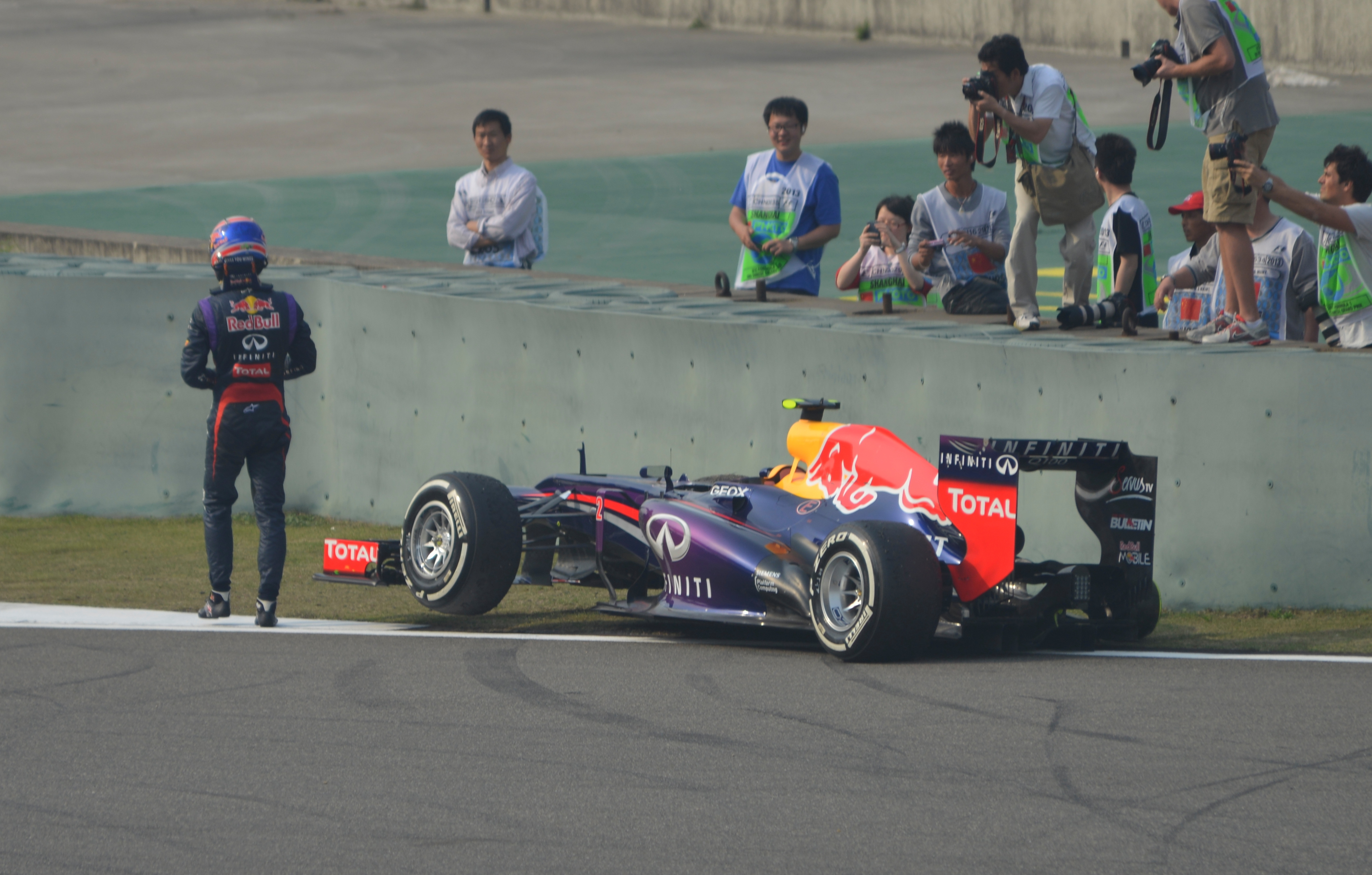 Mark Webber and his RB9